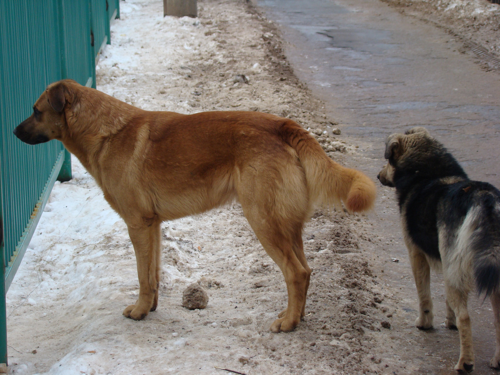 Stray dogs in Moscow.